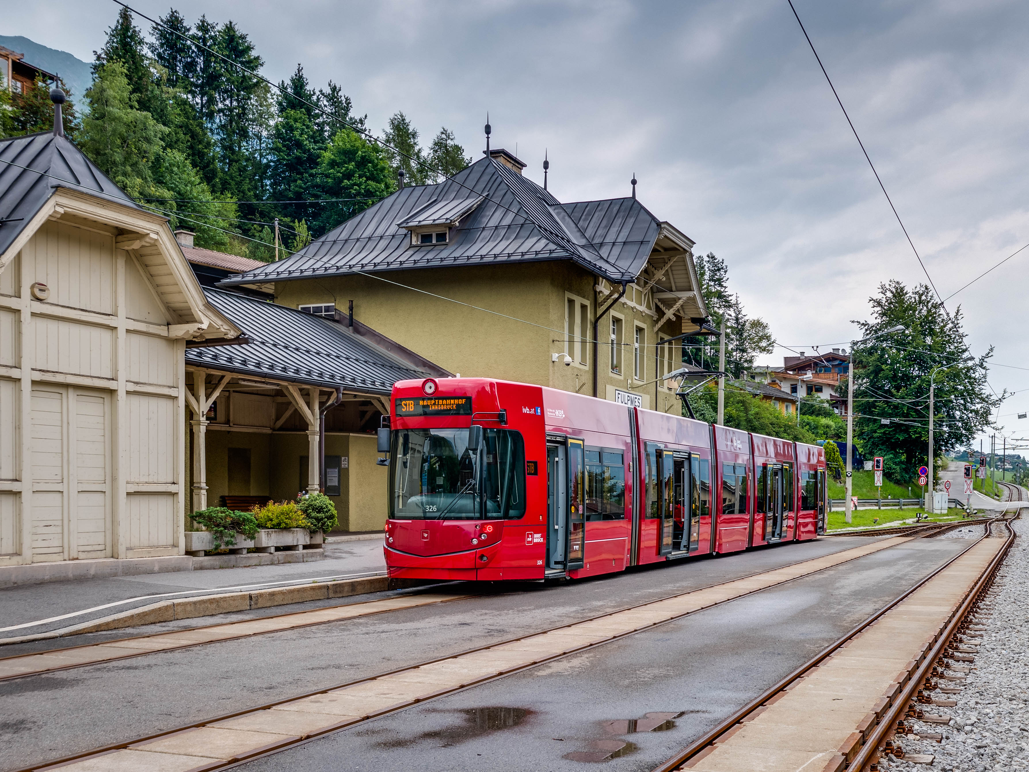 Station of the Stubay Valley Railway in Fulpmes. Stubai Valley, Innsbruck-Land, Tyrol, Austria